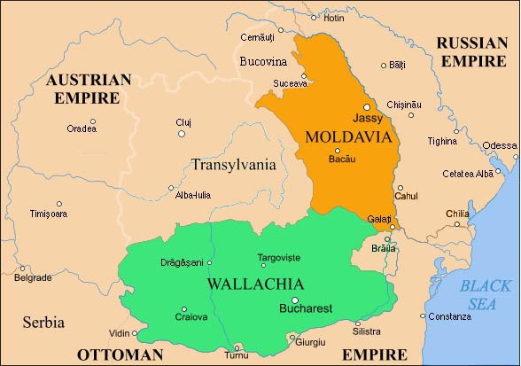 Moldavia & Valachia 1812-1829